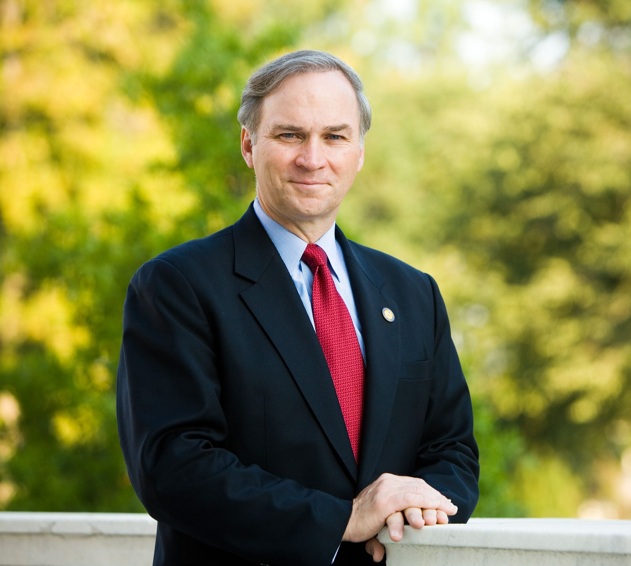 Randy Forbes, member of the United States House of Representatives